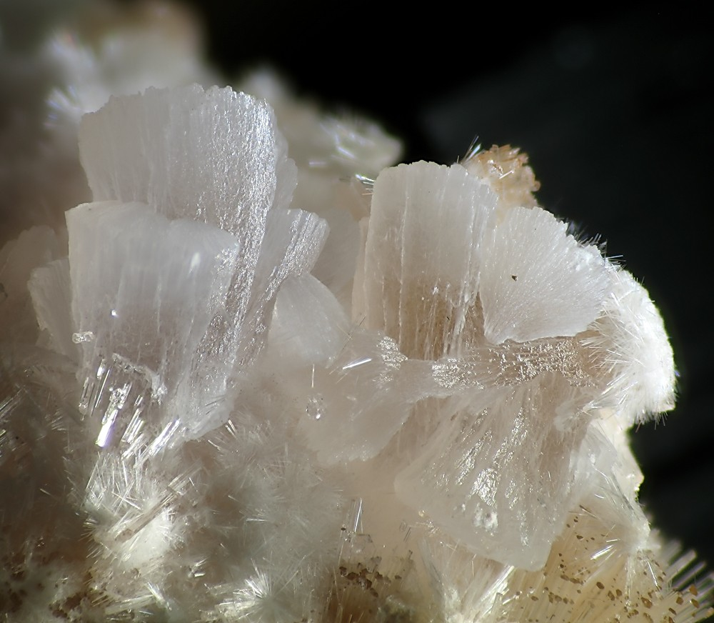 Fransoletite Locality: Tip Top Mine (Tip Top pegmatite), Fourmile, Custer District, Custer County, South Dakota, USA (Locality at ) Picture width 3 mm. Collection and photograph Christian Rewitzer